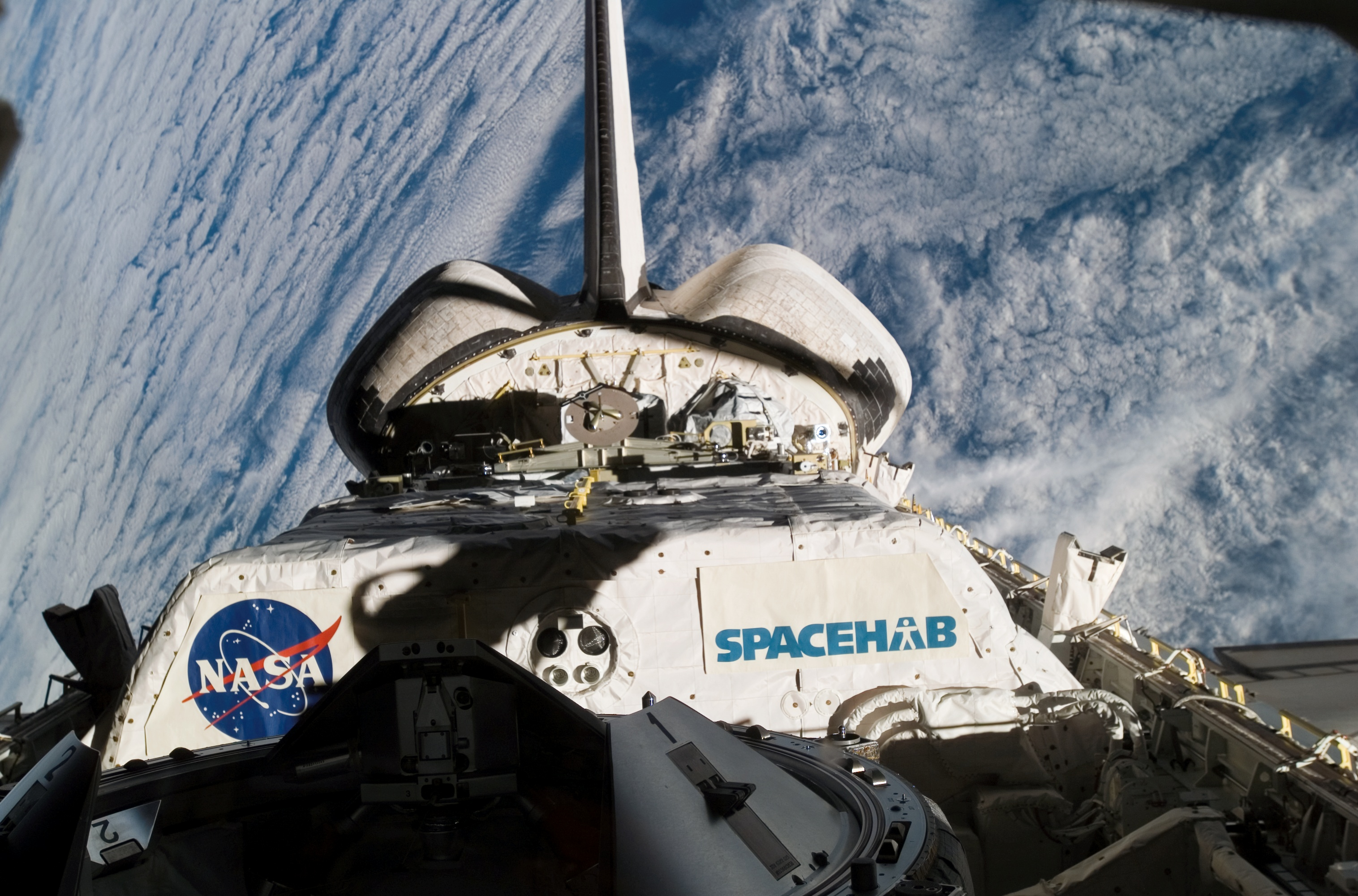 Backdropped by a cloud-covered part of Earth, the SPACEHAB pressurized logistics module in Space Shuttle Endeavour's payload bay